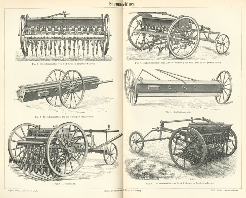 Seeders.